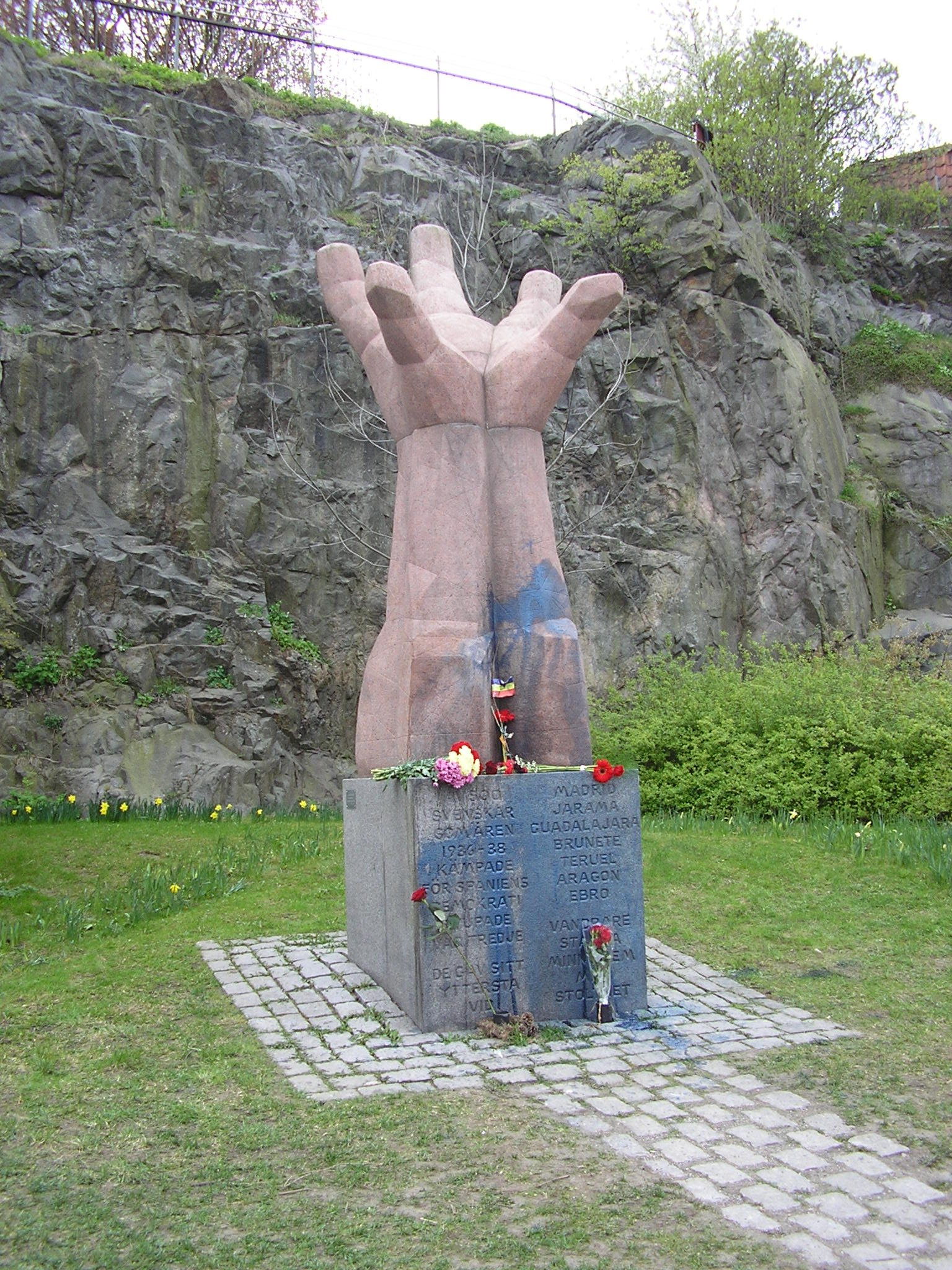 The La Mano monument by Liss Eriksson. It stands in Stockholm, Sweden. It is a memorial to the Swedes that died in the spanish civil war. "La Mano" means "The Hand" in spanish.